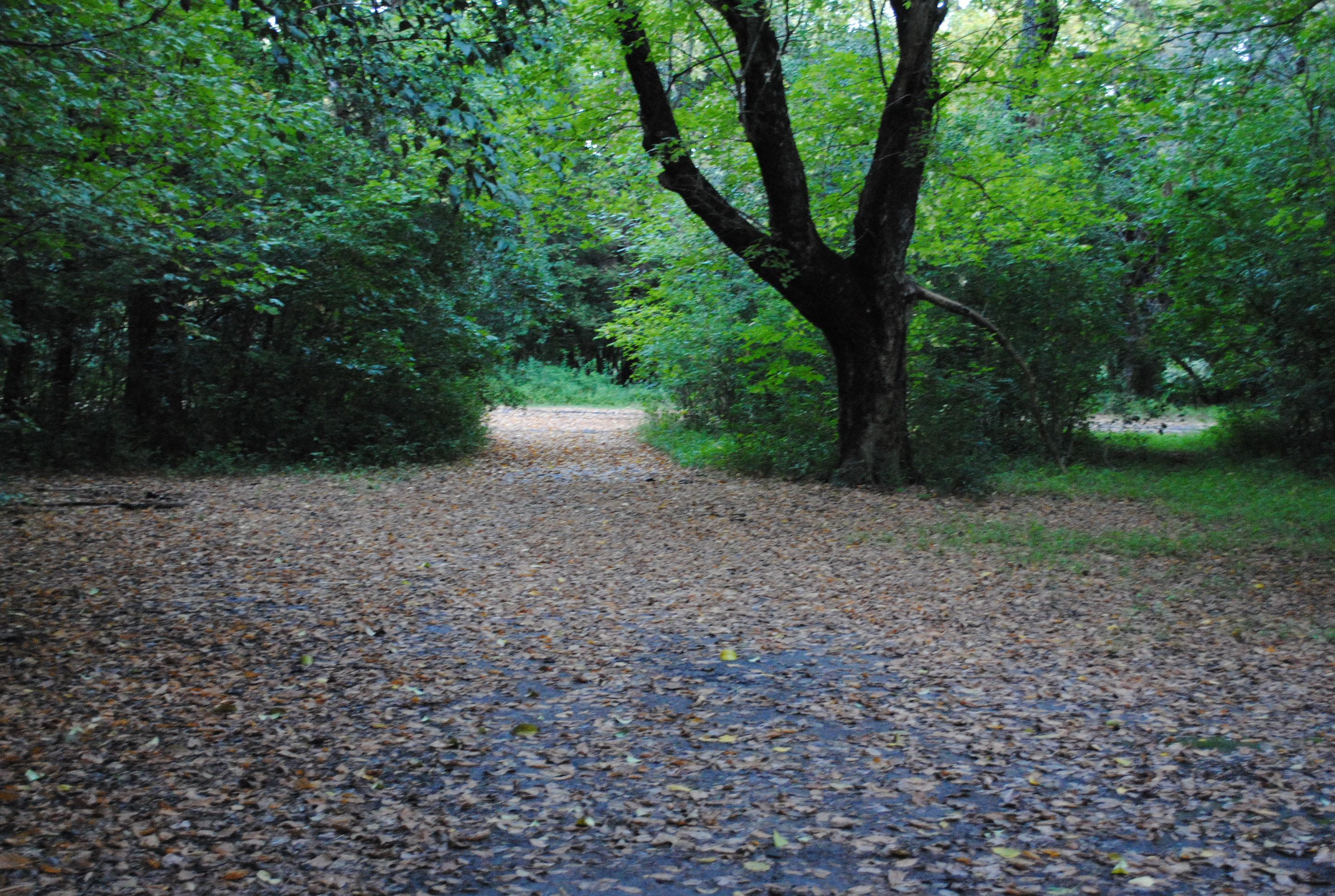 Típico lugar de acampe del Paque Villarino